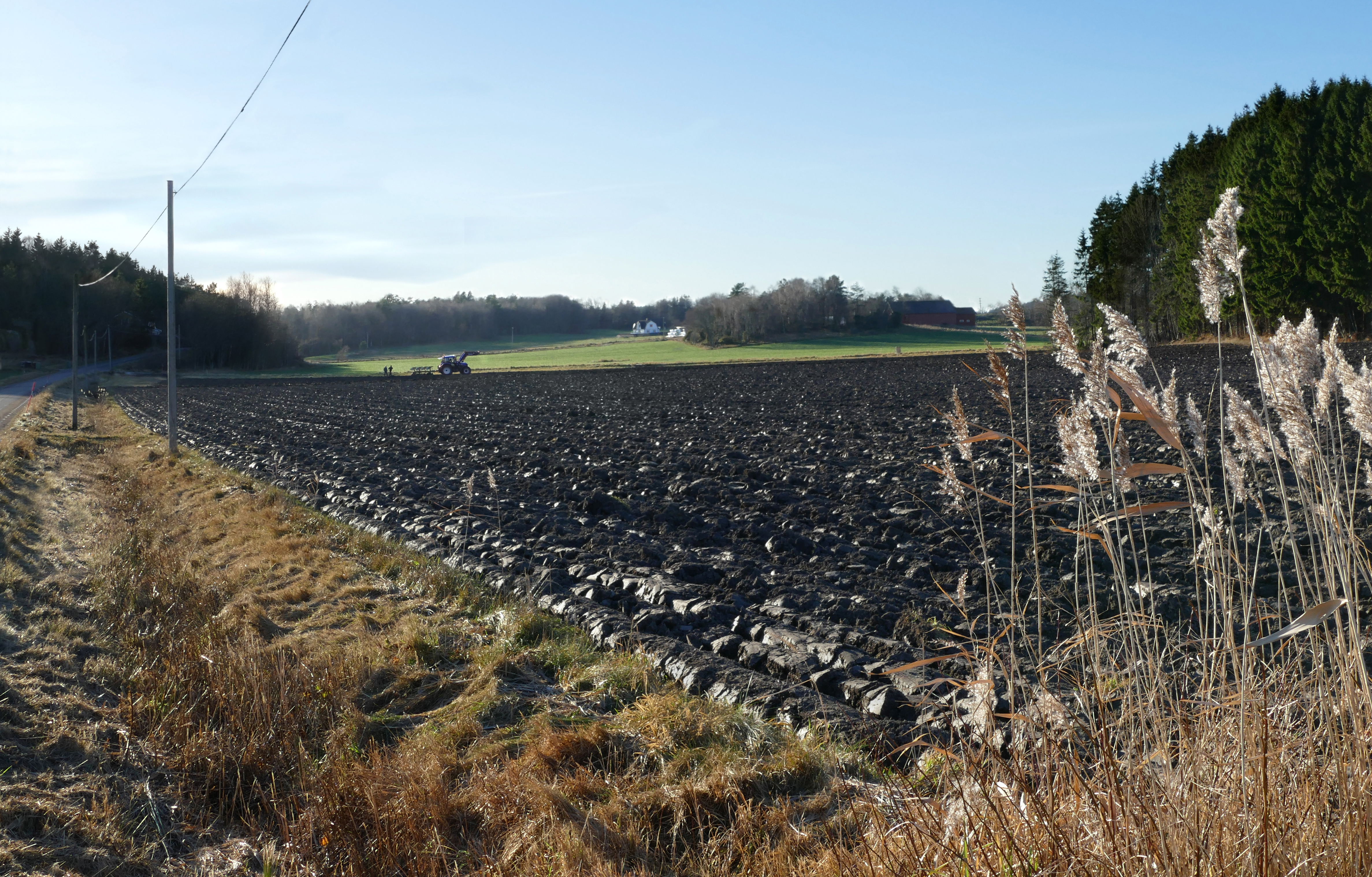 A newly plowed field at Hogarna, Lysekil Municipality, Sweden. The farmer in the tractor is just finishing up the last part of the field. Also in the photo are some reeds (Phragmites australis). The picture is stacked for light and focus by combining six photos as layers of varying degrees of transparency in Photoshop.